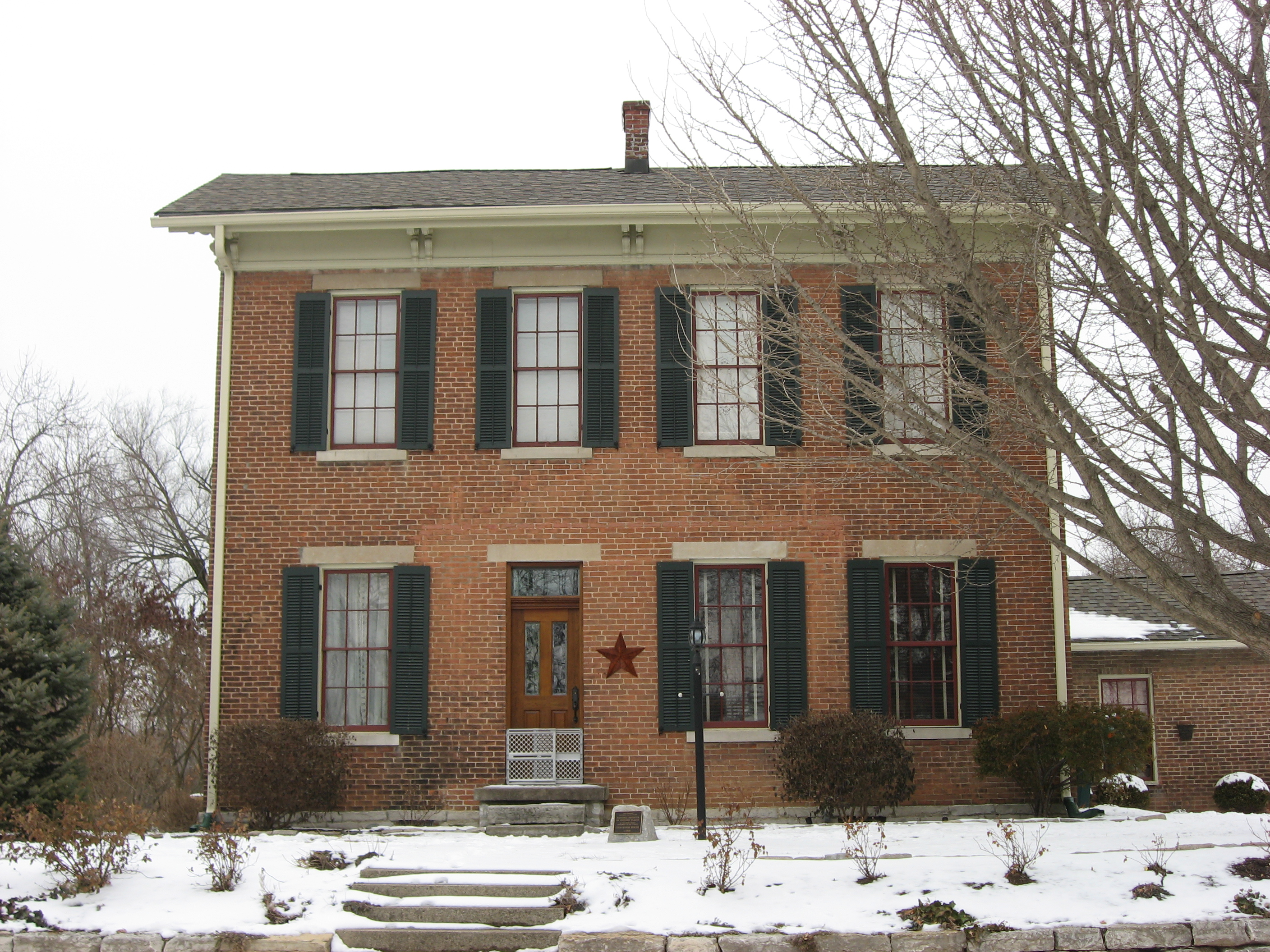 Front of the Cole-Evans House, located at 1012 Monument Street in Noblesville, Indiana, United States. Built in 1837, it is listed on the National Register of Historic Places.